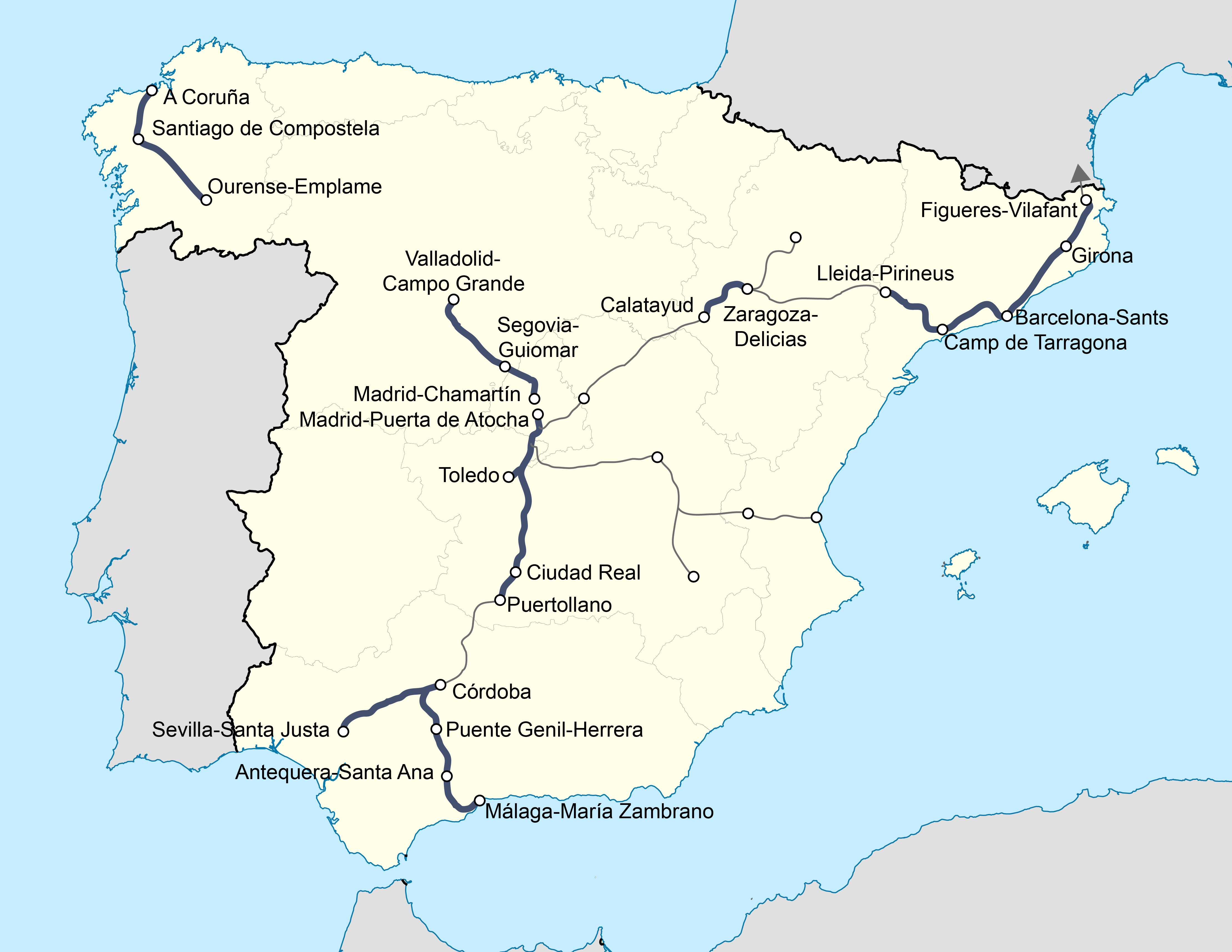 Avant rail services network in march 2013. The rest of the high speed network is in grey.